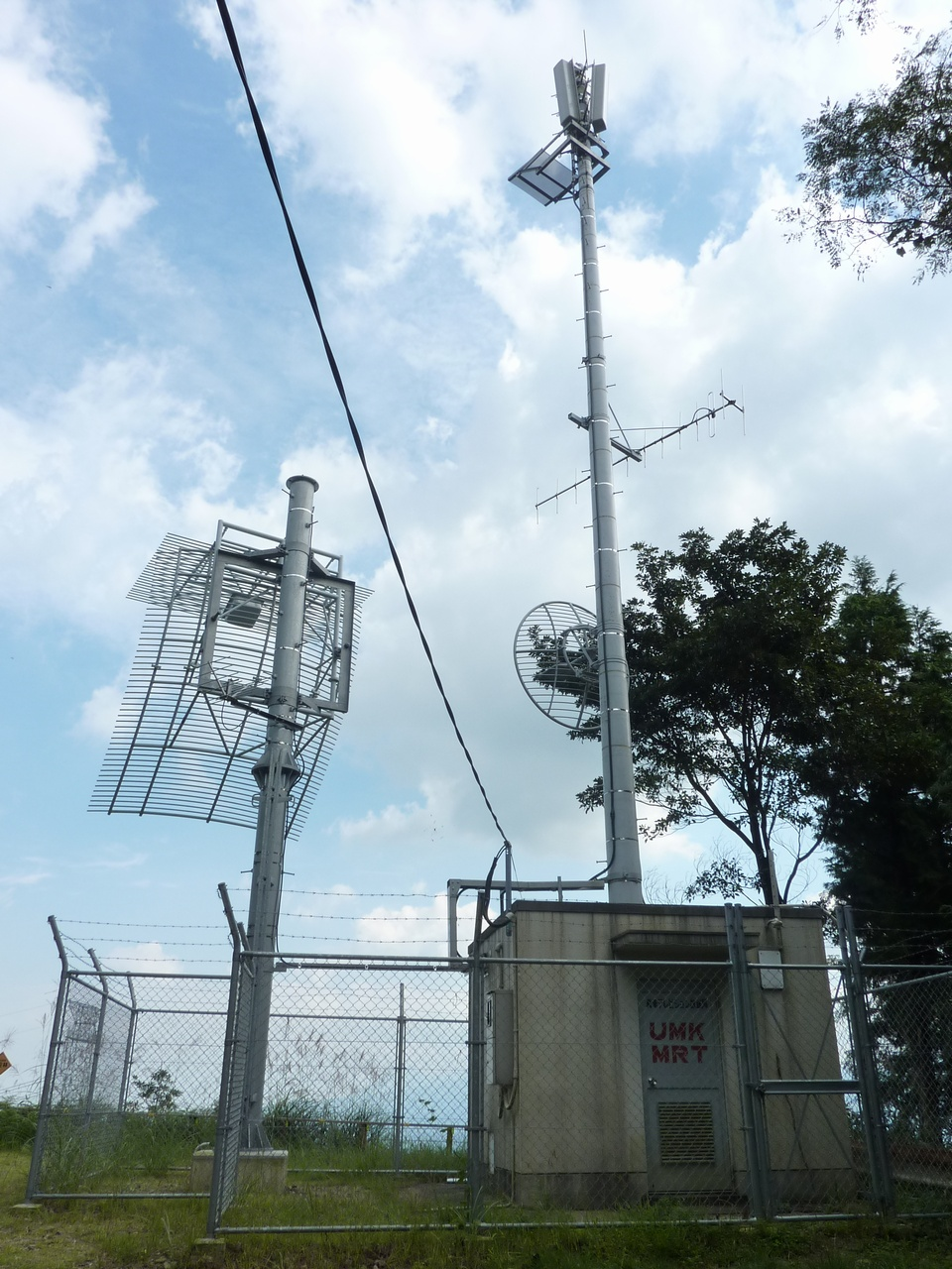 The Masaki Repeater (MRT/UMK) is located in Miyazaki Prefecture, Japan.